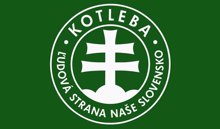 New Flag.